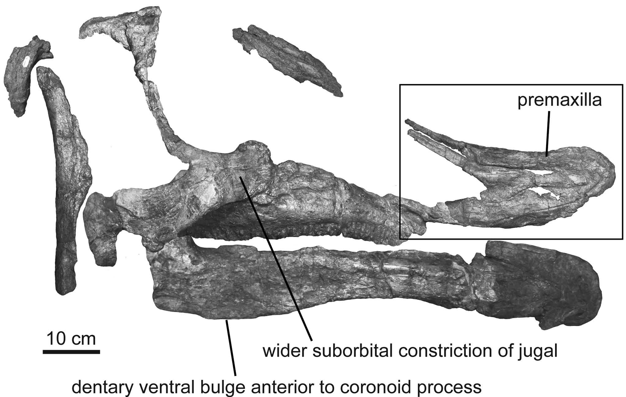 Augustynolophus (formerly Saurolophus) morrisi skull.